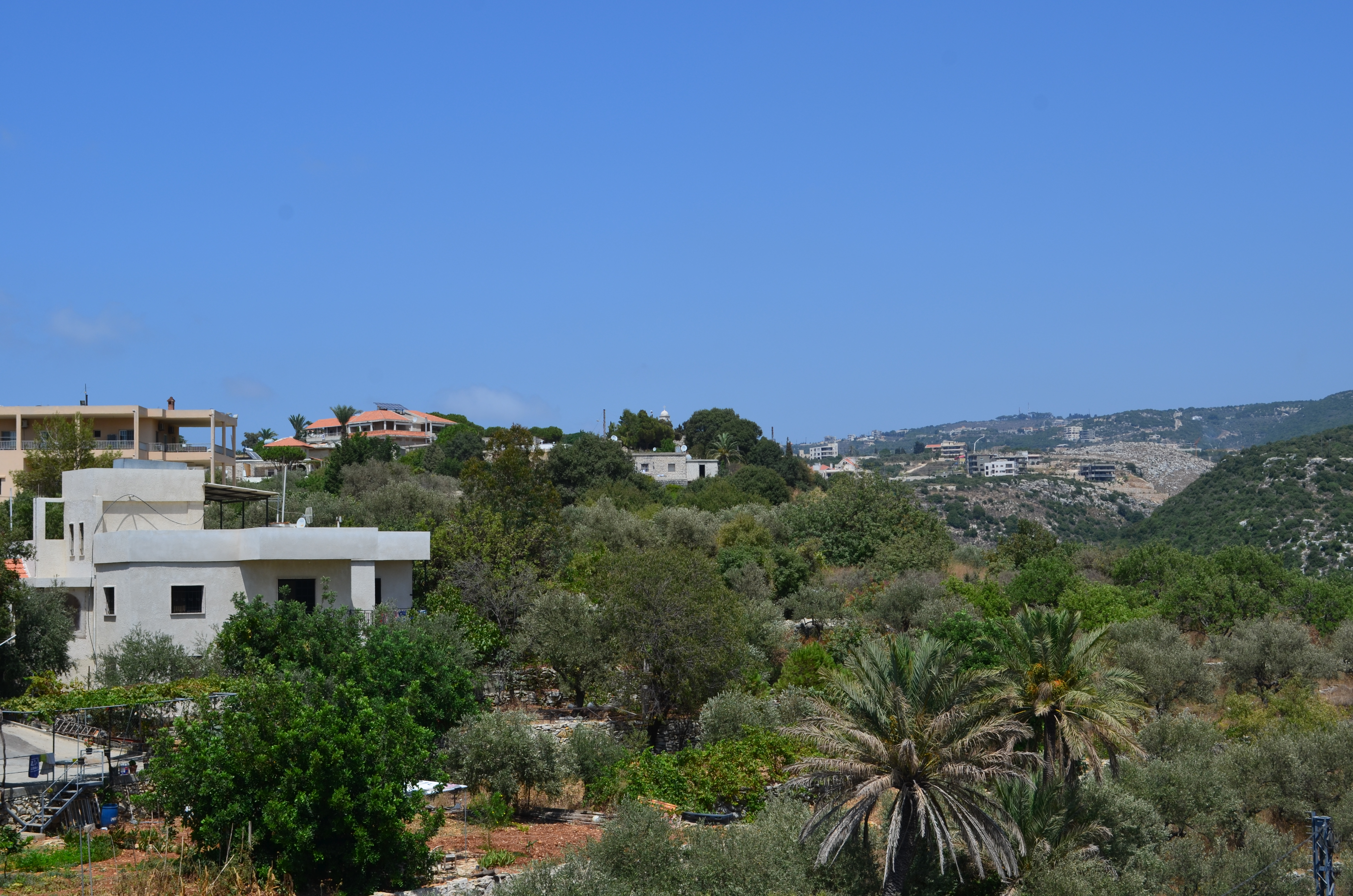 Jeddayel hills. Photo taken on August 18, 2015 by Georges Aoun.